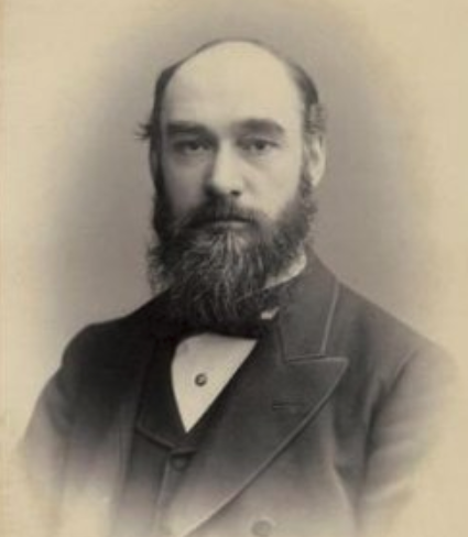 Bust size photographic portrait of Edward Augustus Petherick